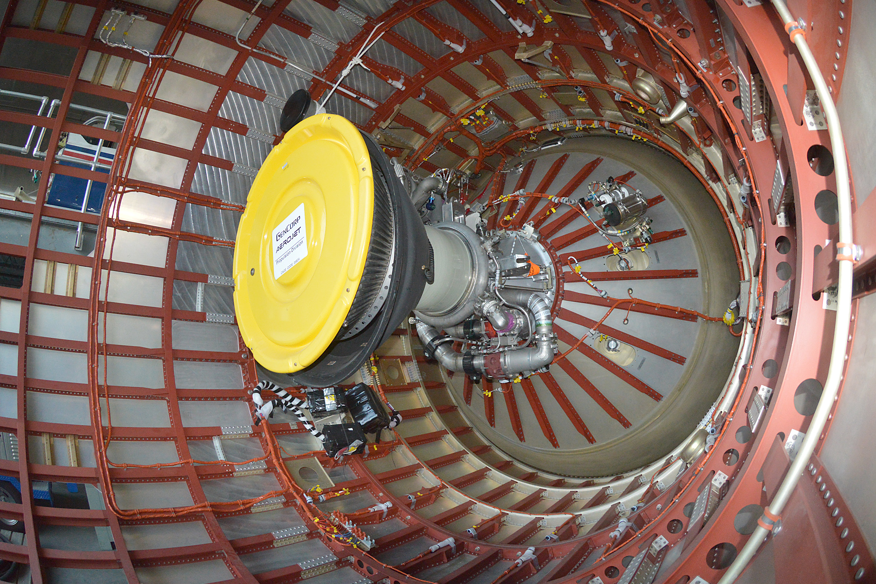 The Titan 4B space launch vehicle in the restoration hangar at the National Museum of the United States Air Force. This is Stage Two which has one LR91-AJ-11 liquid propellant rocket engine.